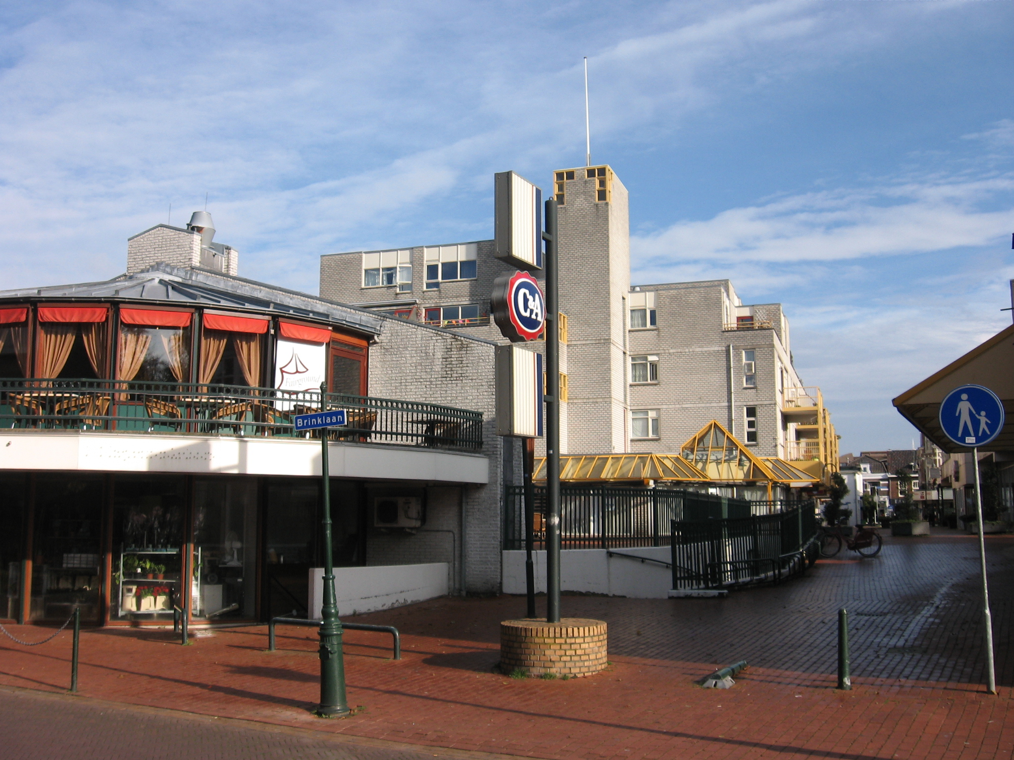 WC Nieuwe Brink, Bussum